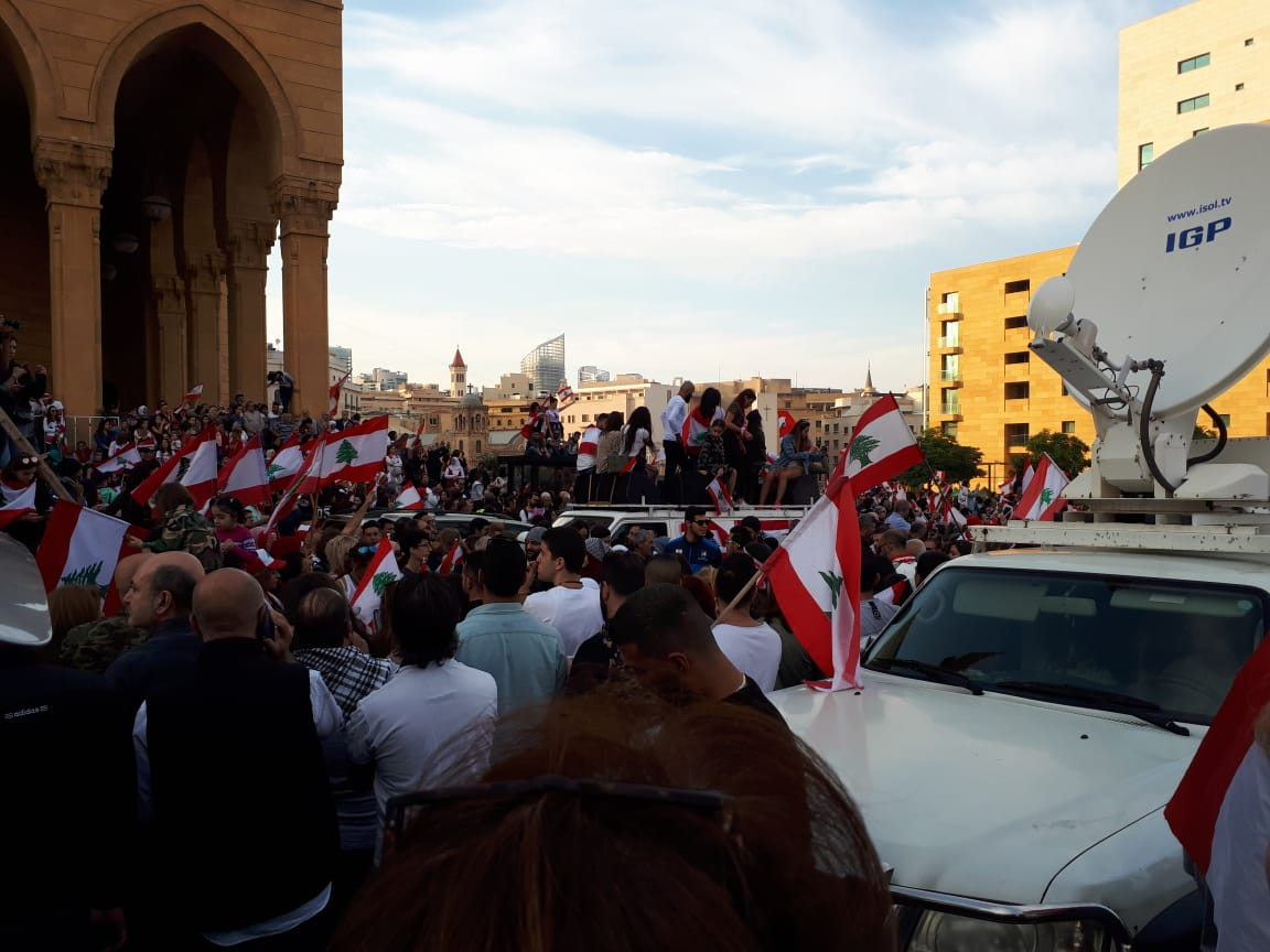 Lebanese protests, Beirut 22 November 2019